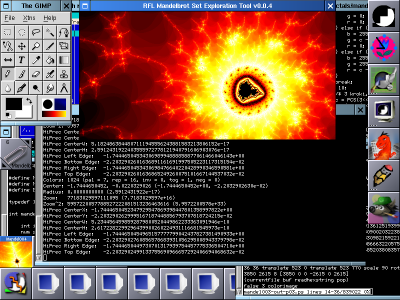 Cool Mandelbrot. Copyright © 2004 Rafał Pocztarski. Mandelbrot set magnified 248,034,982,258 times, 256 iterations The dimensions are 770×523 pixels because it is a scaled down version of the original image prepared for a poster printed on ISO 216 paper sizes with equal horizontal and vertical margins of 2 inches for A0. The original PostScript converted to bitmap using custom tools # bitmap scaled down to 770×523 pixels and converted to a very low quality JPEG using The Gimp (quality 90, optimized, progressive, standard subsampling and DCT method) Fractals zn+1 = zn2 + c Calm Mandelbrot Cool Mandelbrot Hot Mandelbrot Shot Mandelbrot